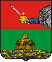 Nikolsk (Vologda oblast), coat of arms (1781)